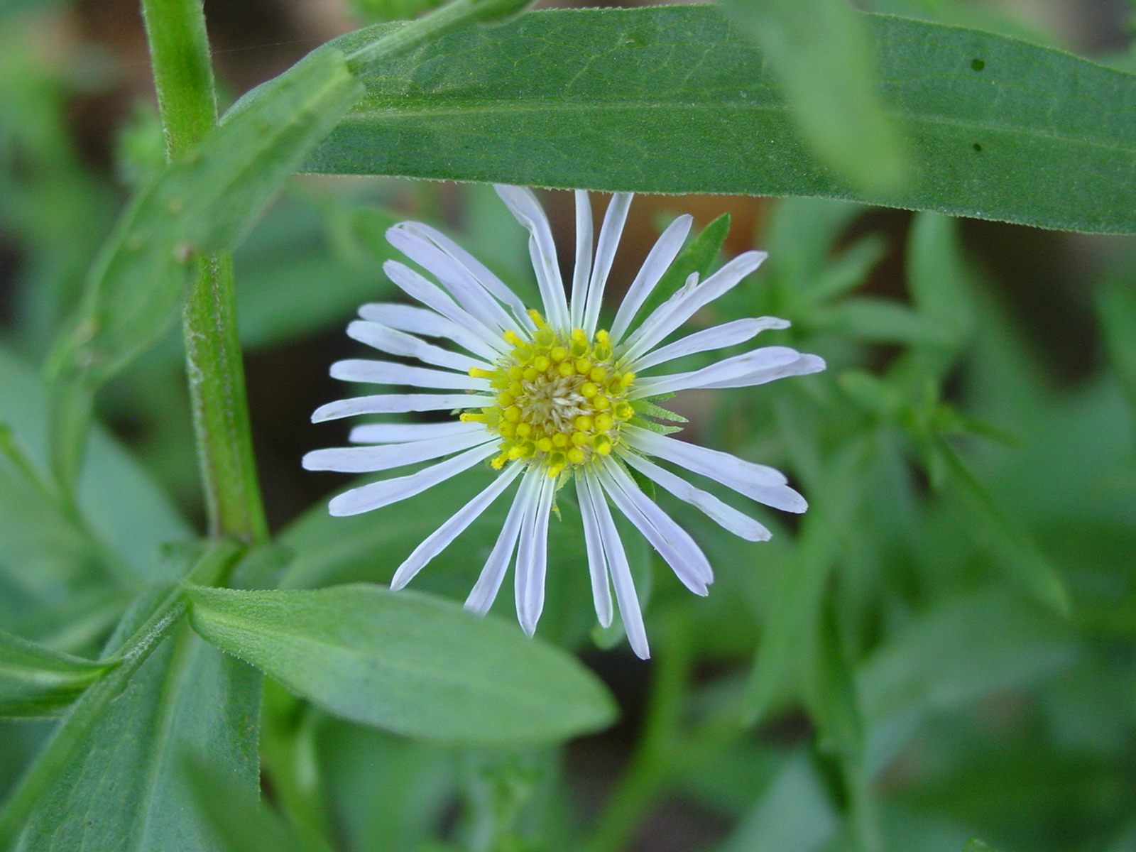 Erigeron divergens. City of Rocks National Preserve, Idaho, USA.